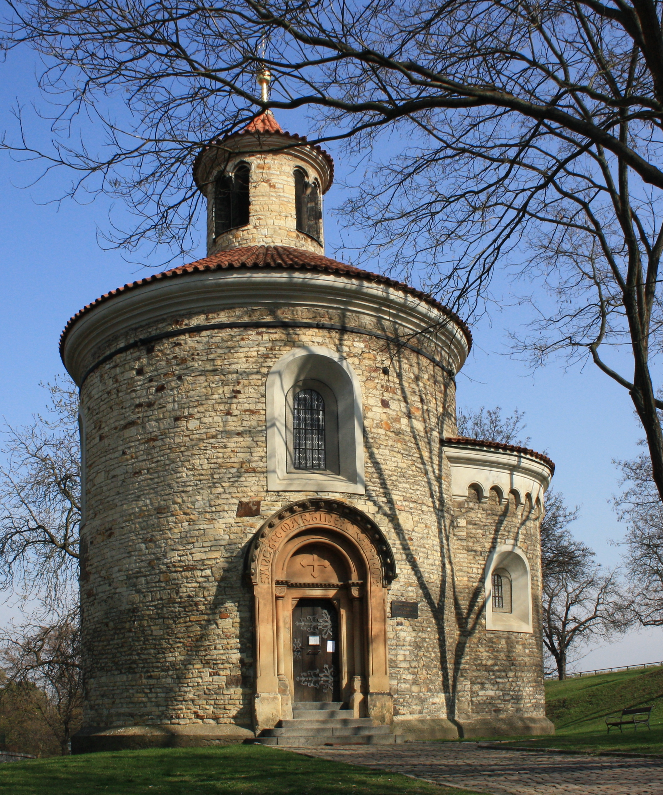 Rotunda of Saint Martin (Vyšehrad), Prague, Czech Republic This photograph was taken with a DSLR from WMCZ's Camera grant.